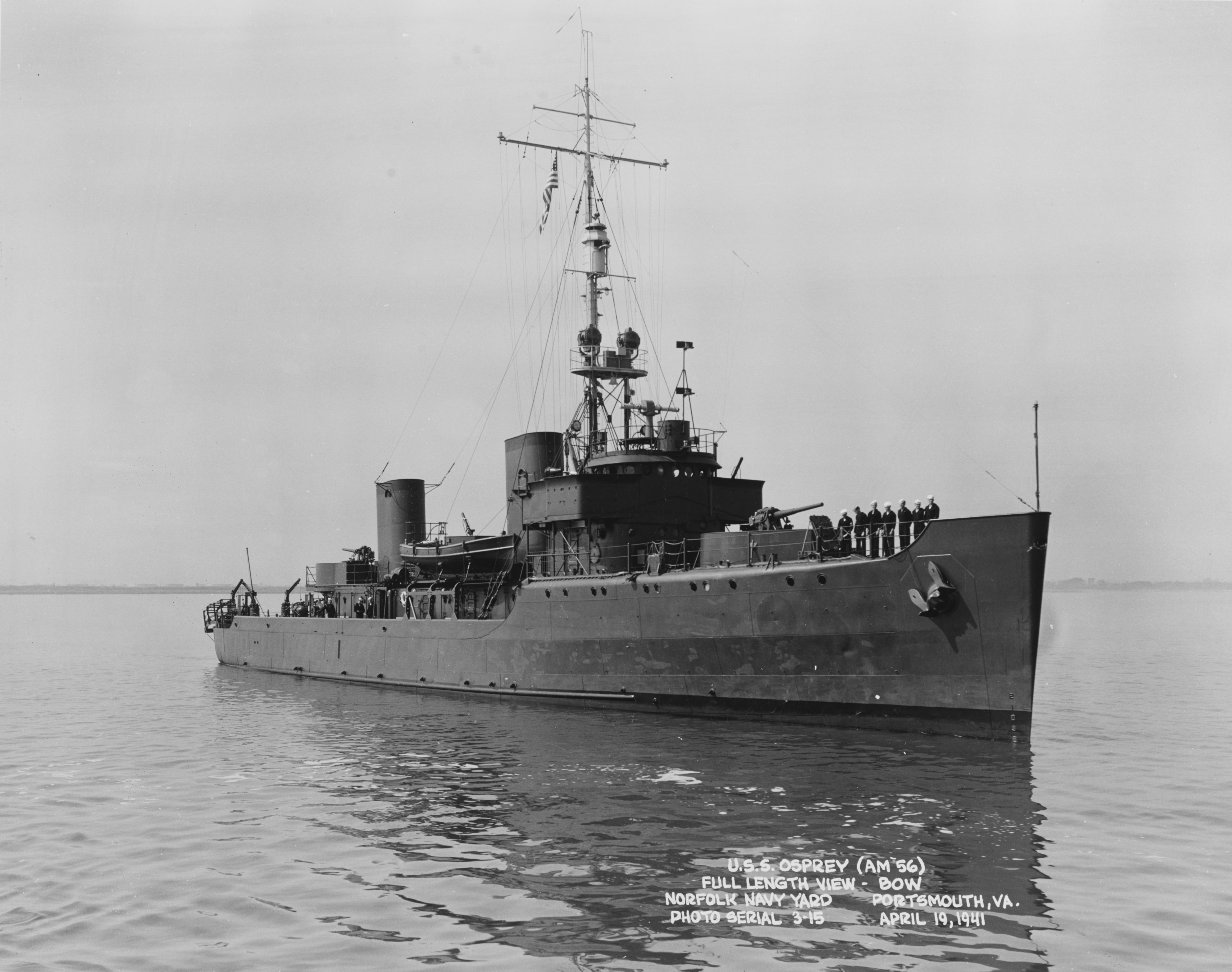 (AM-56) Off the Norfolk Navy Yard, Portsmouth, Virginia, 19 April 1941. Photograph from the Bureau of Ships Collection in the U.S. National Archives.